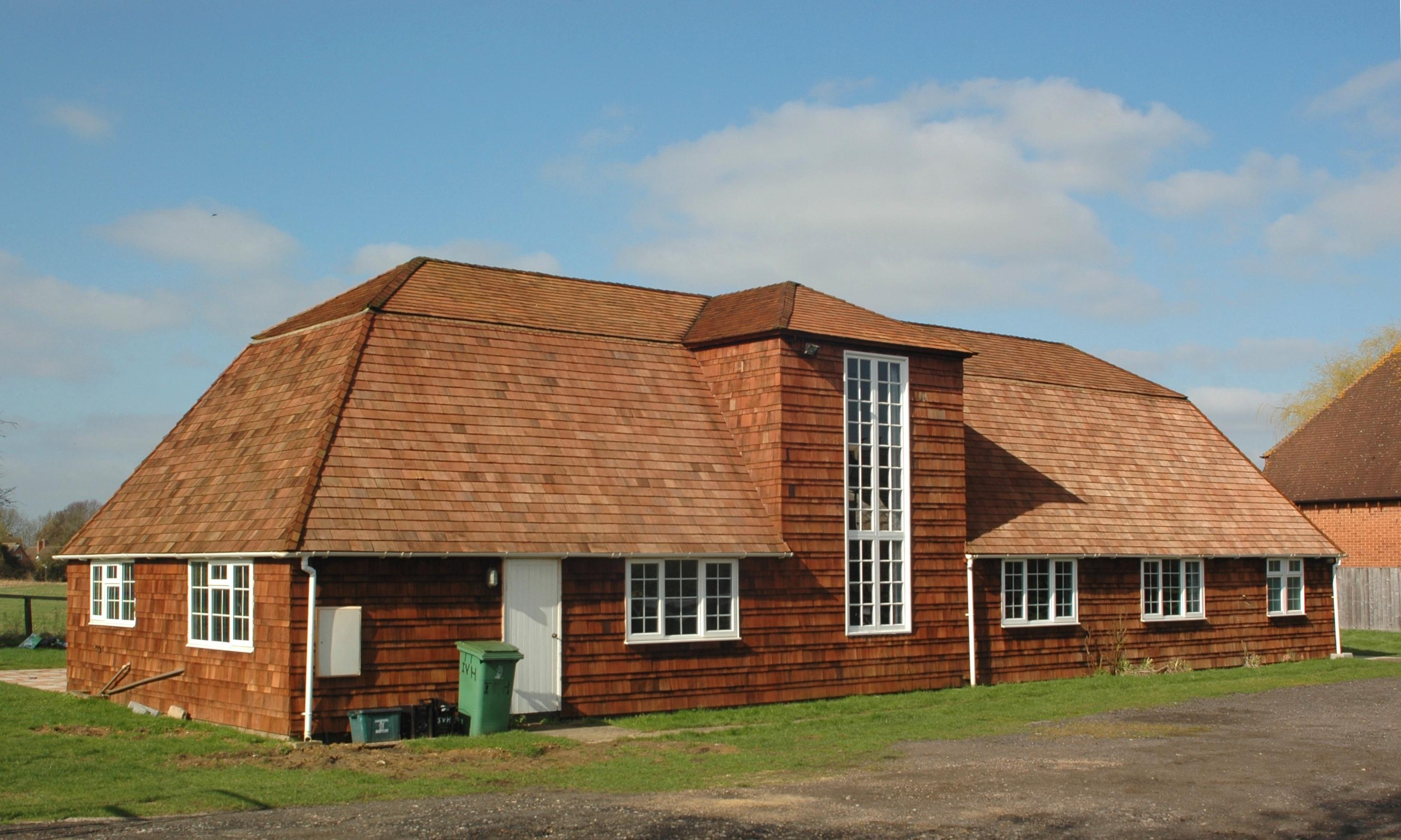 Ickford Village Hall, Ickford, Buckinghamshire